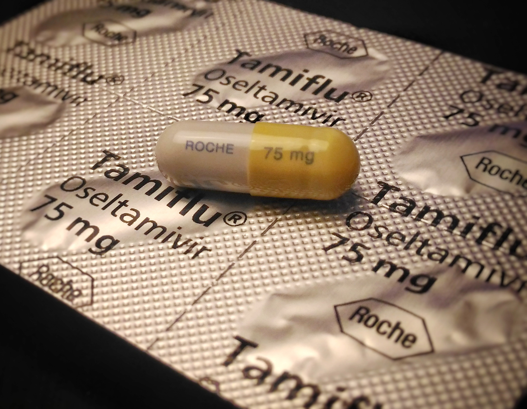 A Tamiflu (oseltamivir) capsule